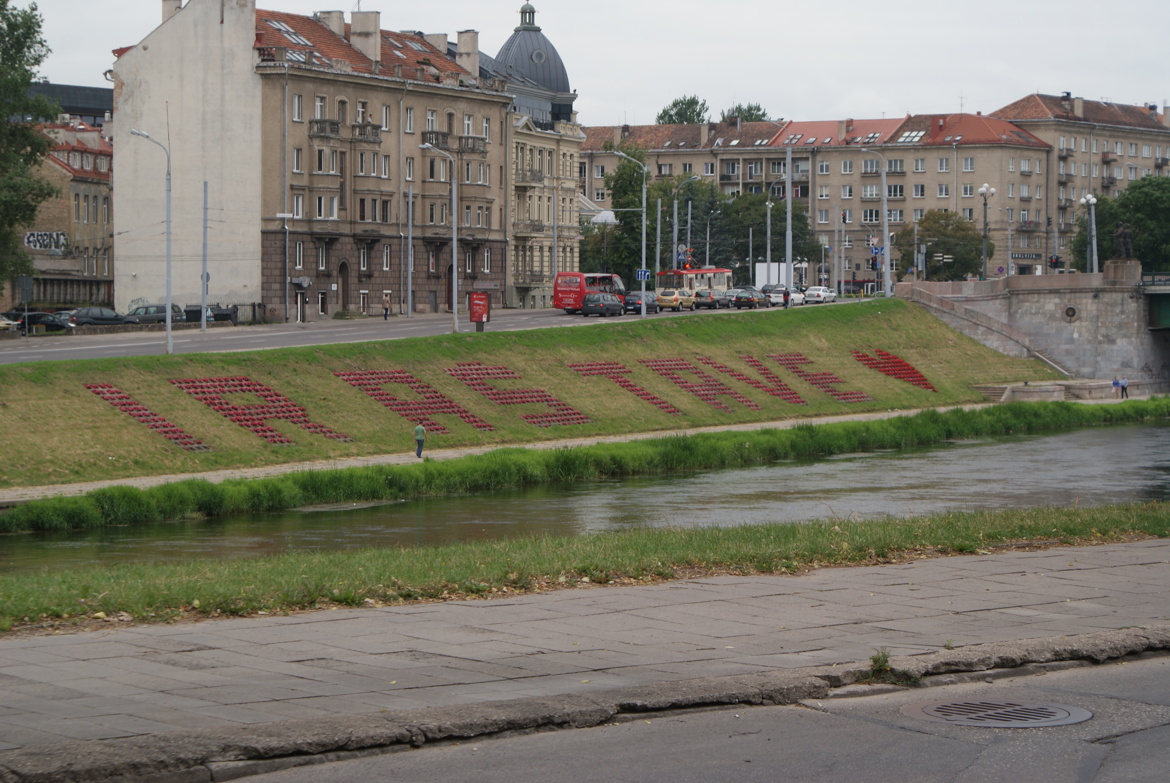 Vilnius